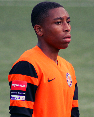 Luke Holness in action for Walton Casuals